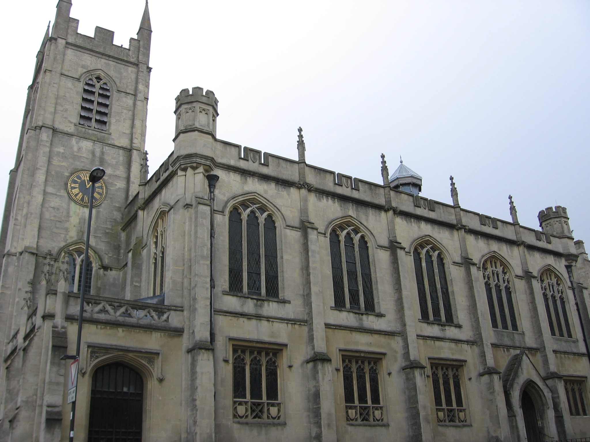 Christ Church chapel, Julian Road, Bath, Somerset, seen from the southwest